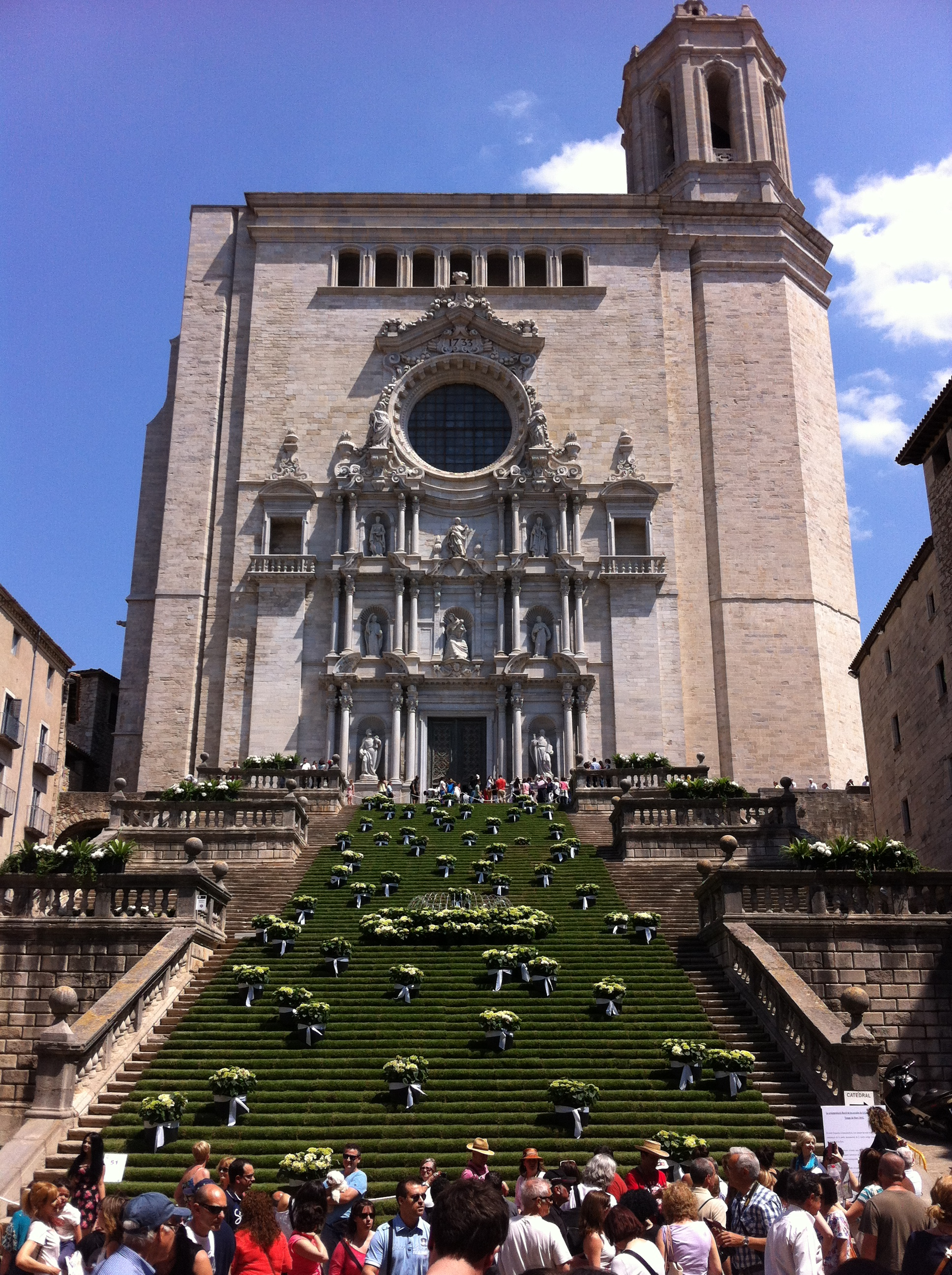 This is the cathedral in Girona, Catalonia, Spain.